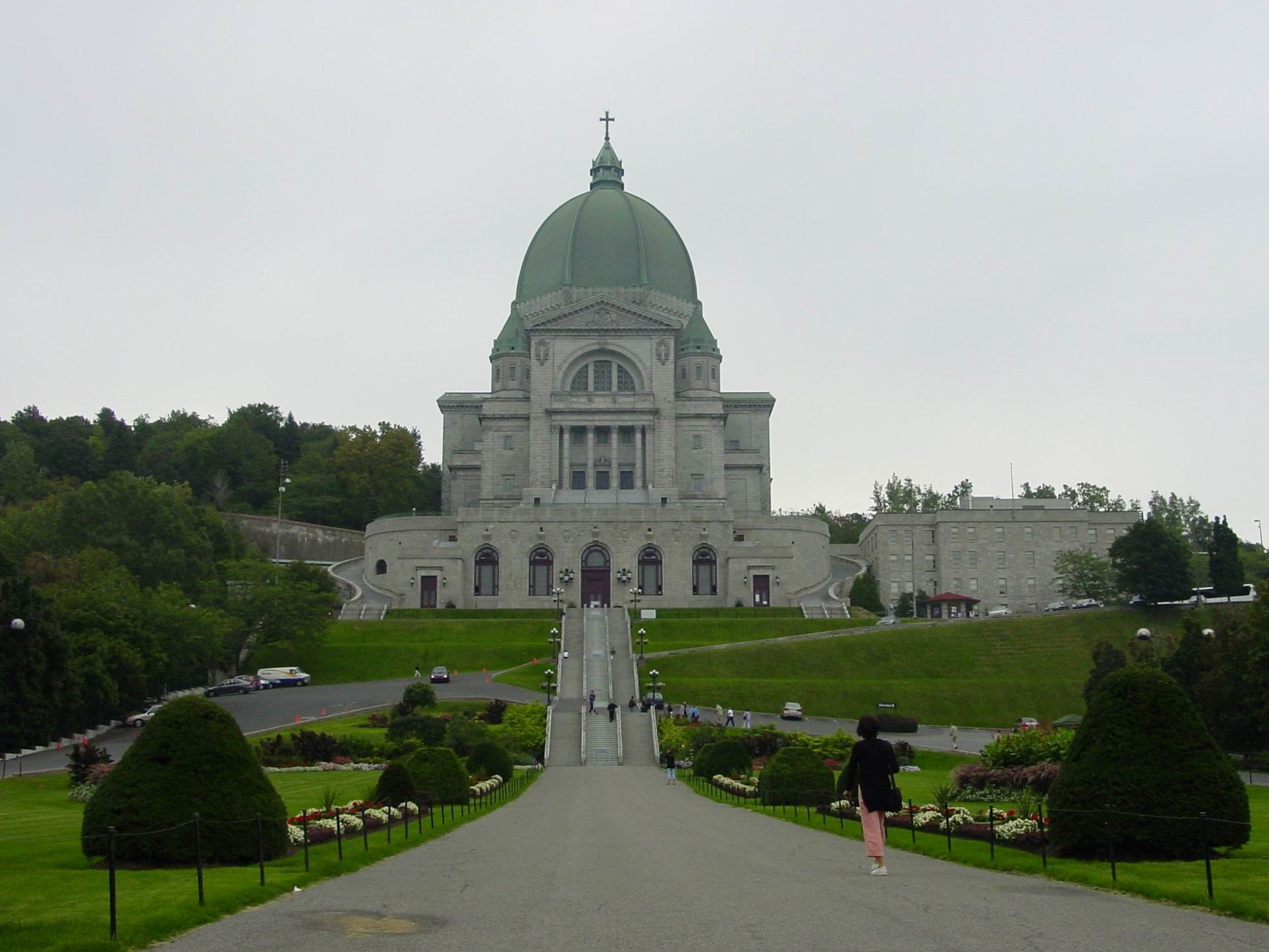 St. Joseph Oratory, Montreal